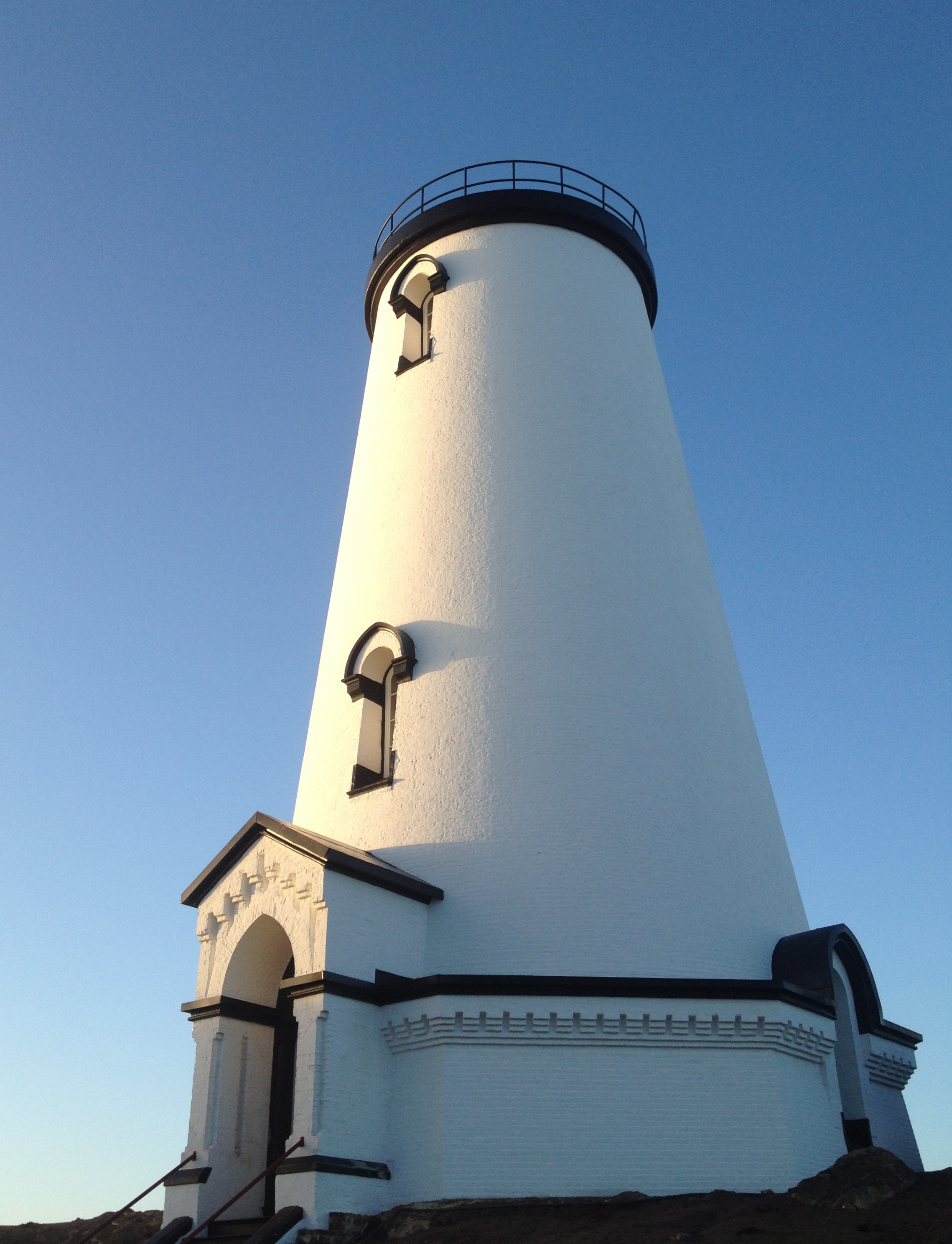 The Piedras Blancas lighthouse shortly after it was painted.